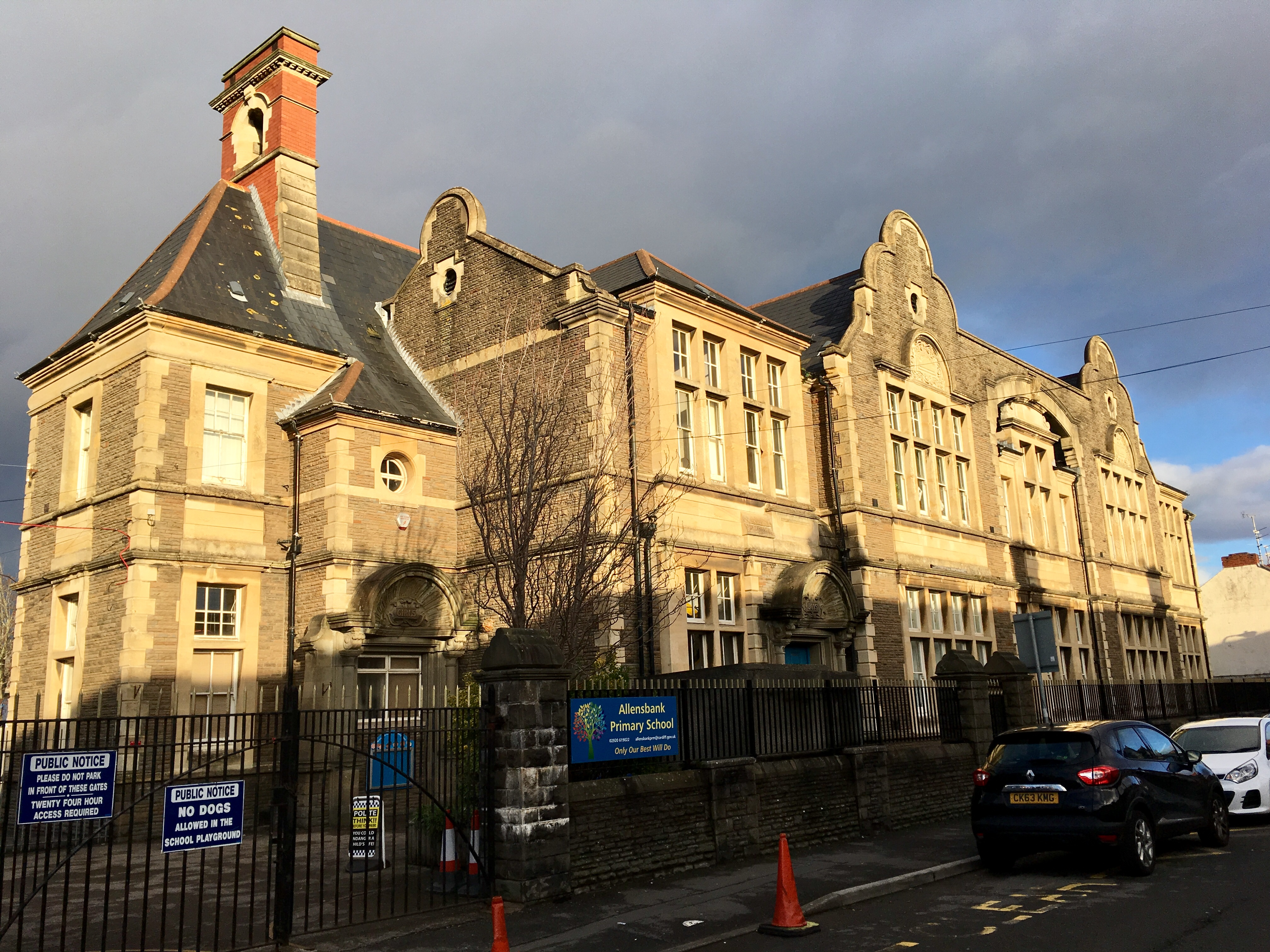 Allensbank Primary School, Juniors Wikidata has entry Q29502723 with data related to this item.